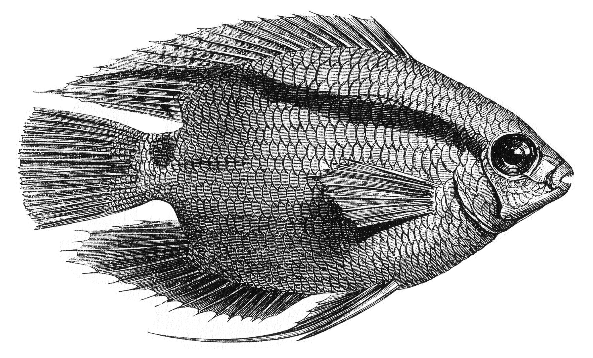 Caption: "Acará (Mesonauta insignis)."